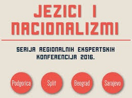 Poster for the four conferences called Languages and Nationalisms, held in Croatia, Bosnia and Herzegovina, Serbia, and Montenegro in 2016